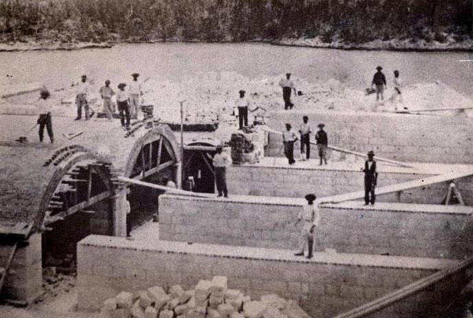 The construction of the British Army's magazine, reputed to be the largest of its type in the Western Hemisphere, on Agar's Island, Bermuda in 1870. It held gunpowder for the Bermuda Garrison.